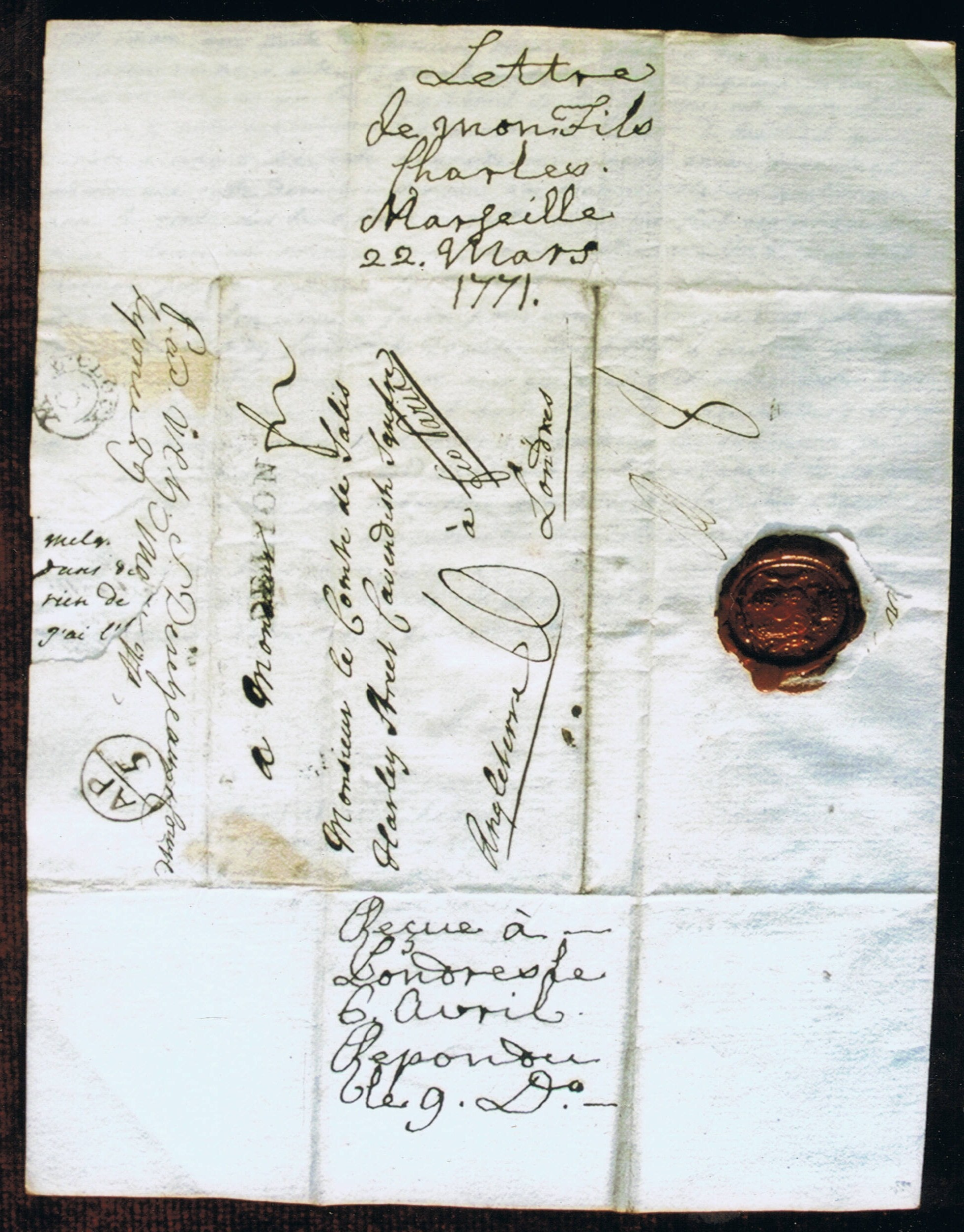 cover of letter from Charles de Salis to his father Jerome, dated 22 March 1771. Scan of a photograph, both by R. de Salis. Rodolph 15:58, 19 October 2007 (UTC)